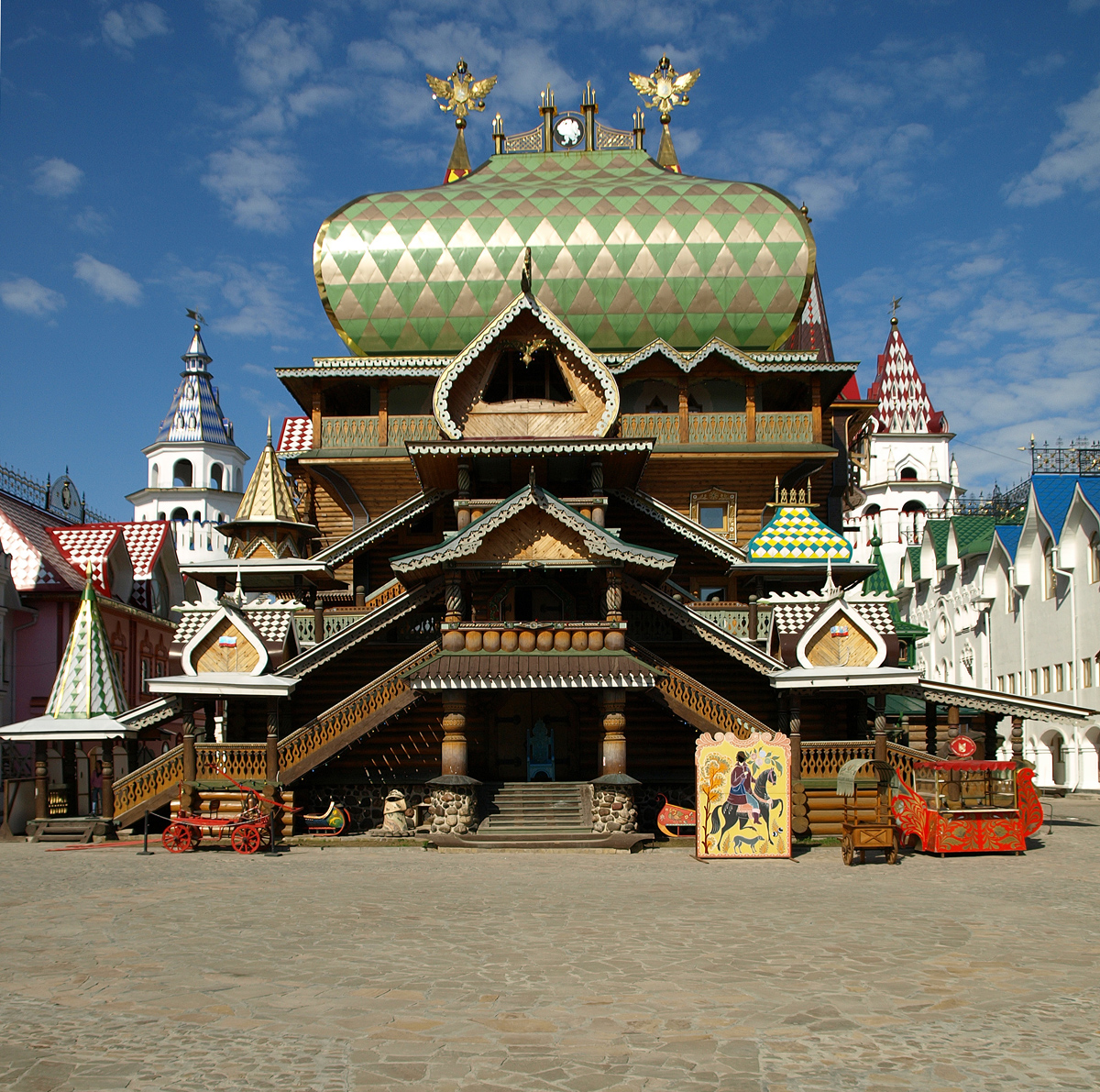 New Kremlin in Izmailovo, inside the walls